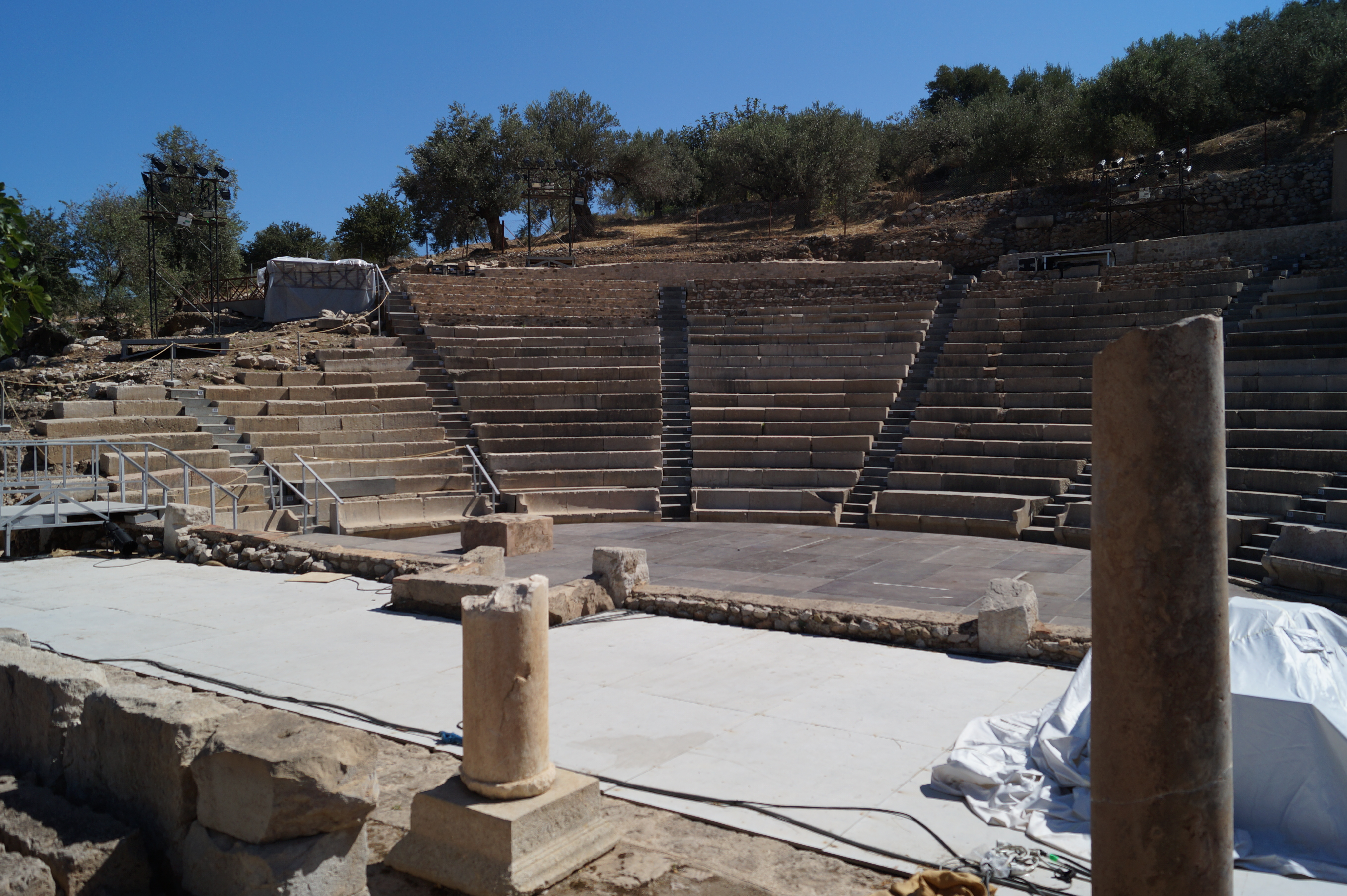 Palea Epidavros, Peloponnese, Greece: Small theatre (4th cent. BC)